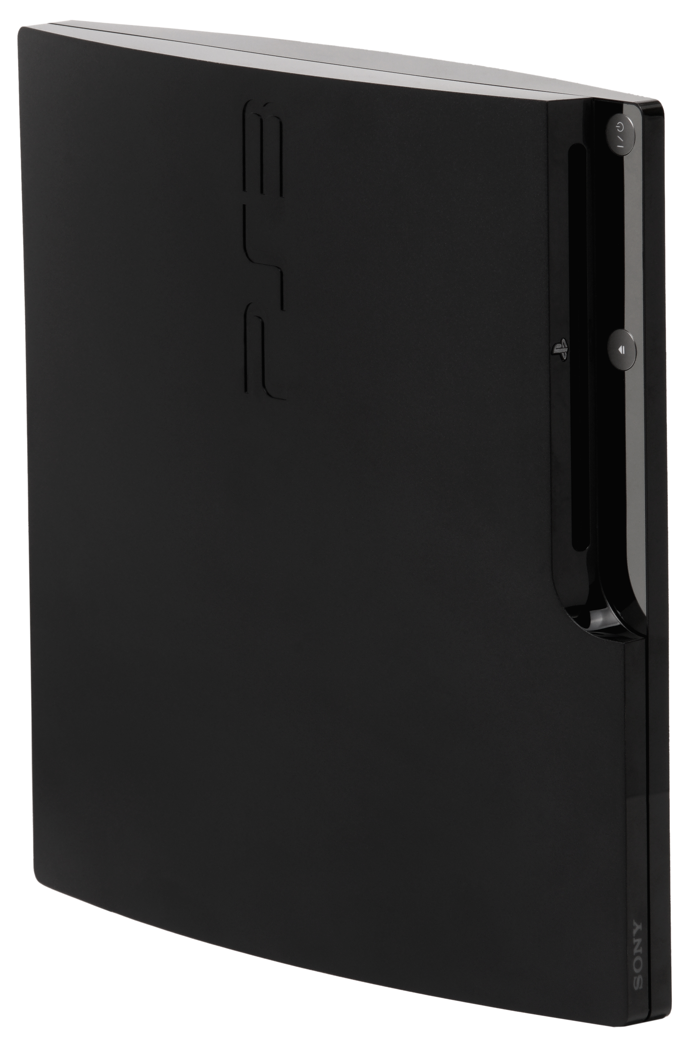 The Sony PlayStation 3 (PS3) "Slim" console shown in vertical orientation. This is the JPG version.